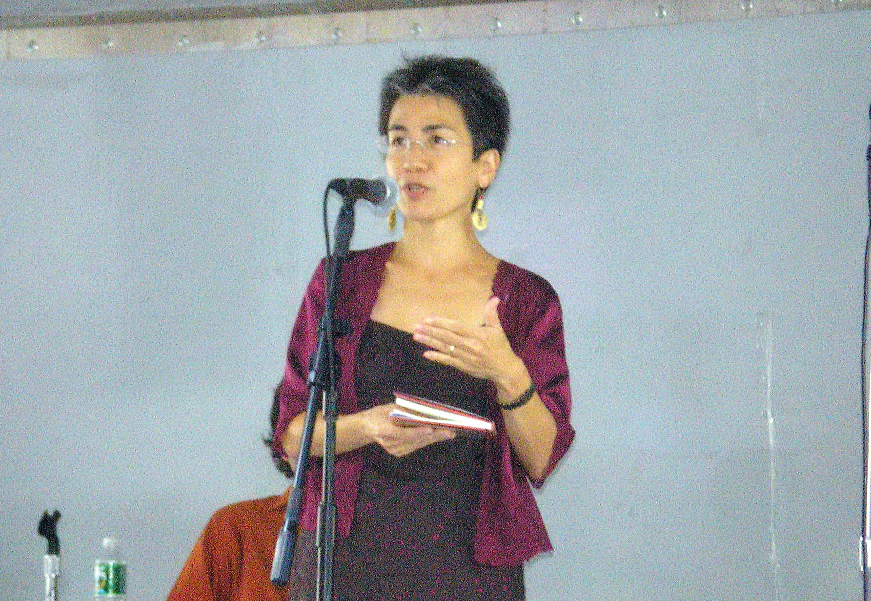 Kimiko Hahn by David Shankbone, New York City